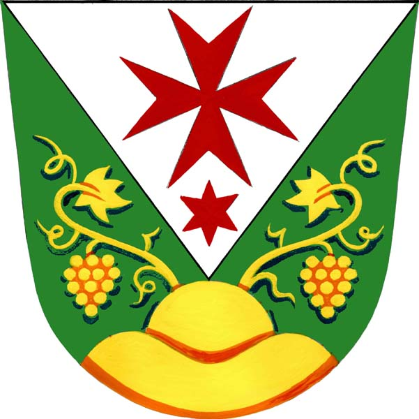 Municipal coat of arms of Věteřov village, Hodonín District, Czech Republic.